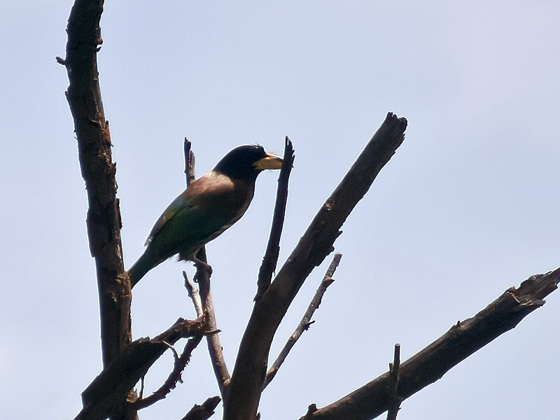 Great Barbet Megalaima virens in Kullu District of Himachal Pradesh, India.